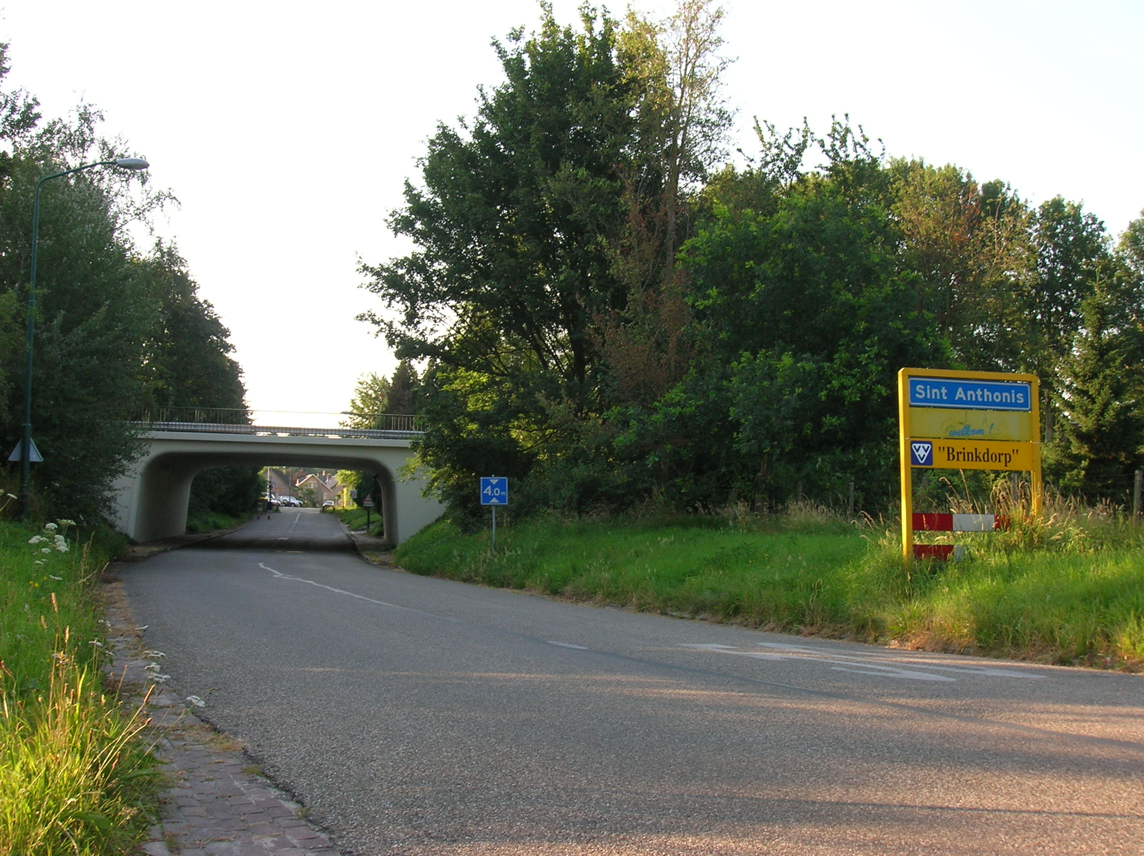 A viaduct in the built-up area of Sint Anthonis.